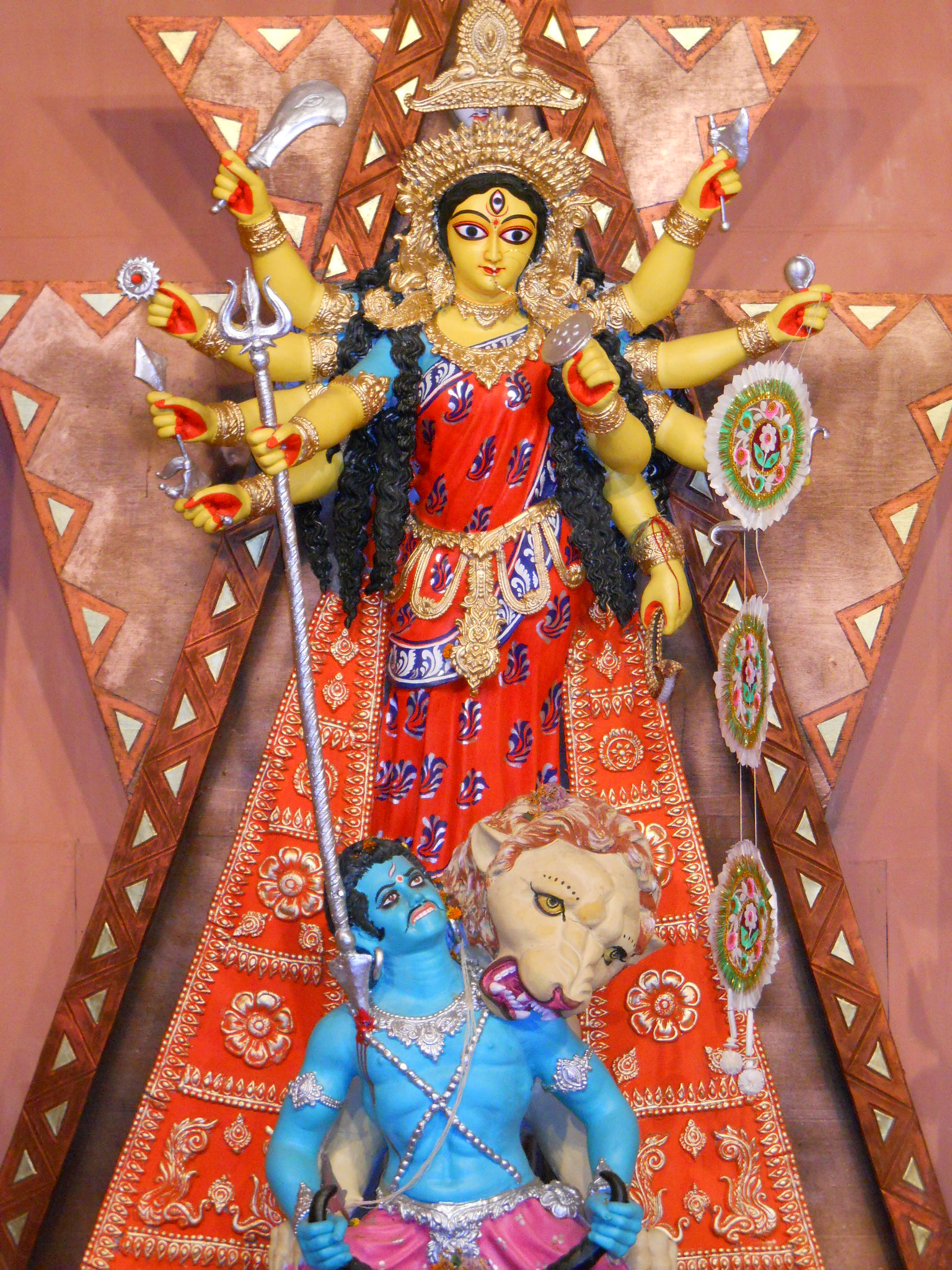 Parosar Nabodyay Sangha